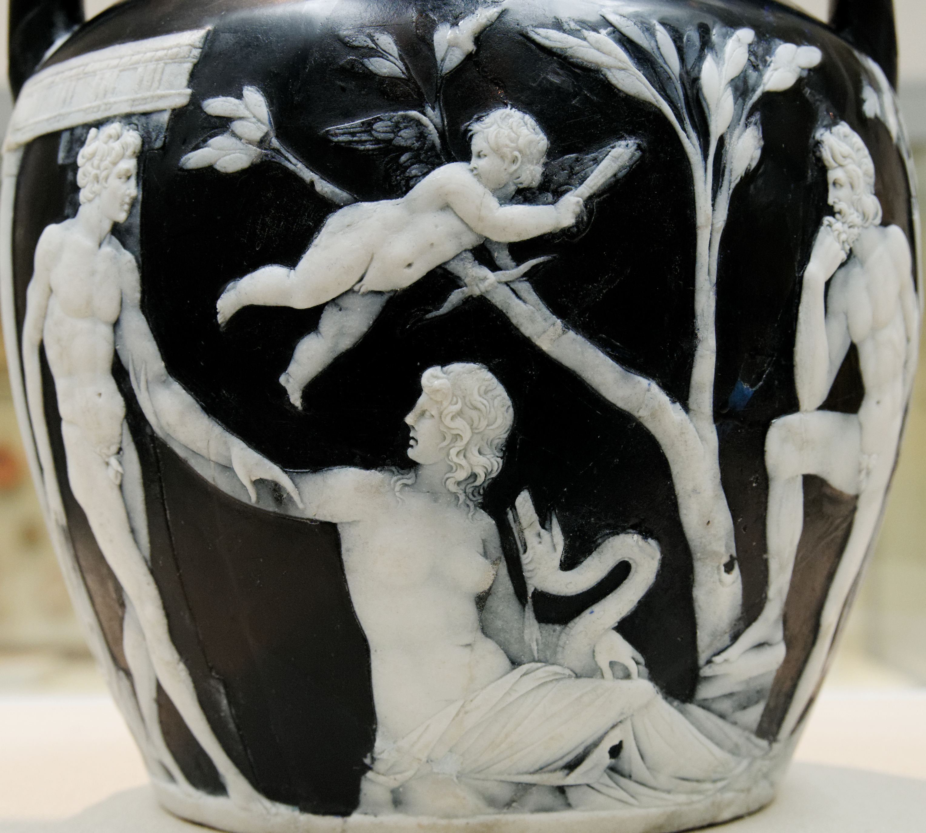 Wedding scene, detail of the side A of the Portland Vase. Cameo-glass, probably made in Italy ca. 5-25 AD.